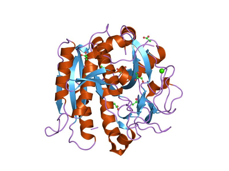 Cartoon representation of the molecular structure of protein registered with 1ga6 code.